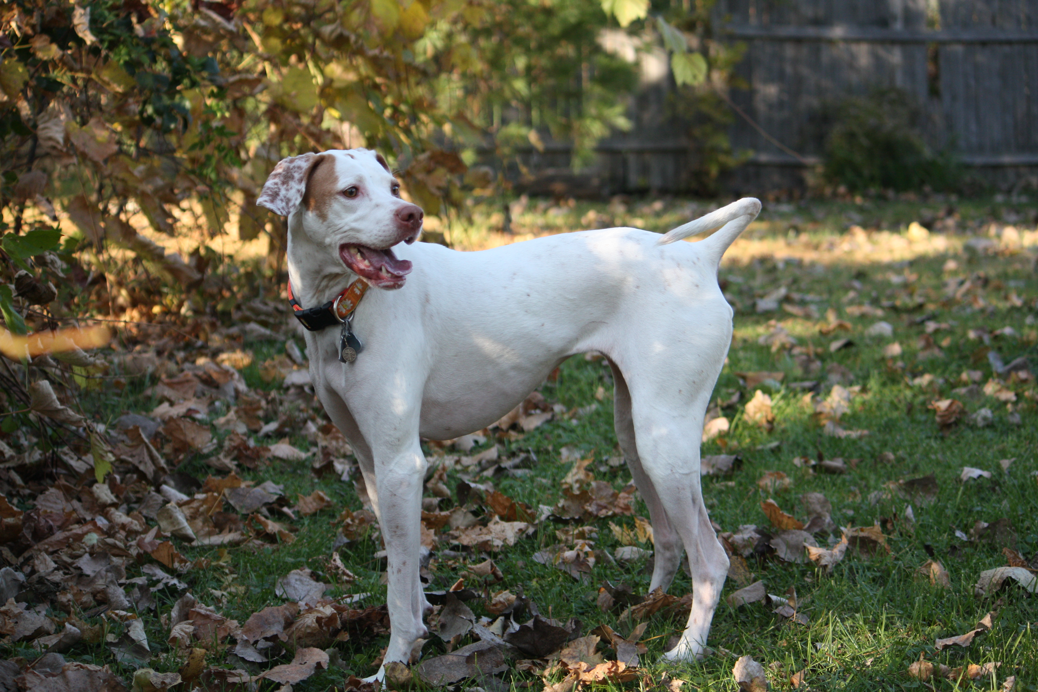 By the grape vines English Pointer